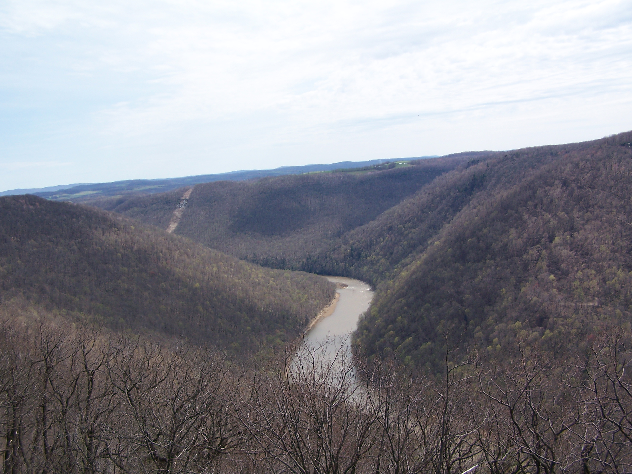 Snake Hill Wildlife Management Area in Monongalia County, West Virginia. Photo taken across the Cheat River from the main overlook at Coopers Rock State Forest.